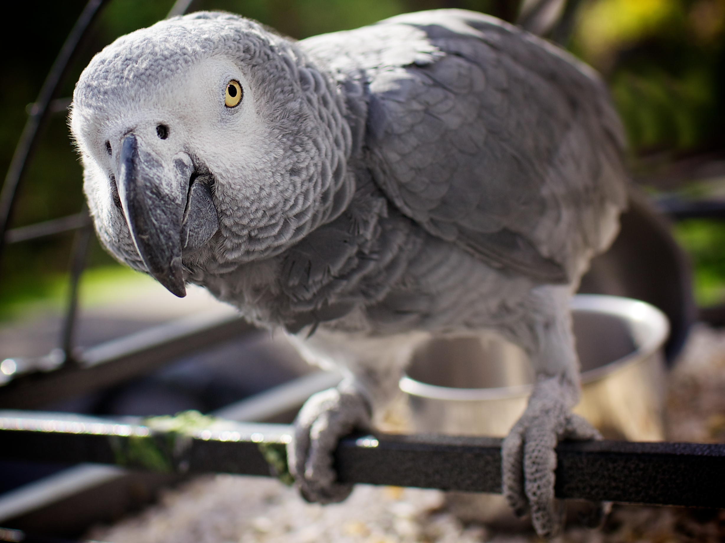 A pet adult Congo African Grey Parrot in Norway.